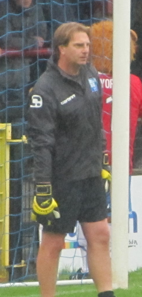 Paul Musselwhite before York City's match against Braintree Town at Bootham Crescent, York on 8 October 2011